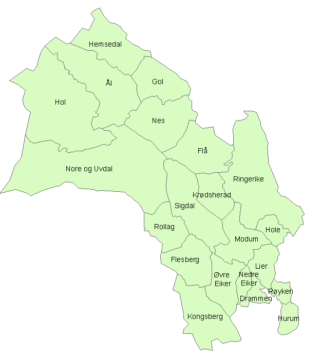 Municipalities of county Buskerud, Norway